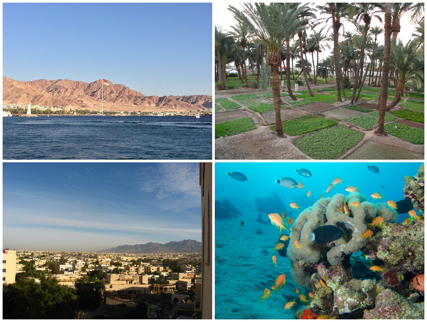 Aqaba City